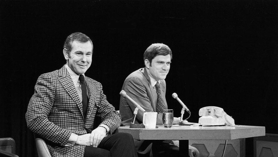 Photo of Johnny Carson and Phil Donahue from Donahue's syndicated television talk program, The Phil Donahue Show.